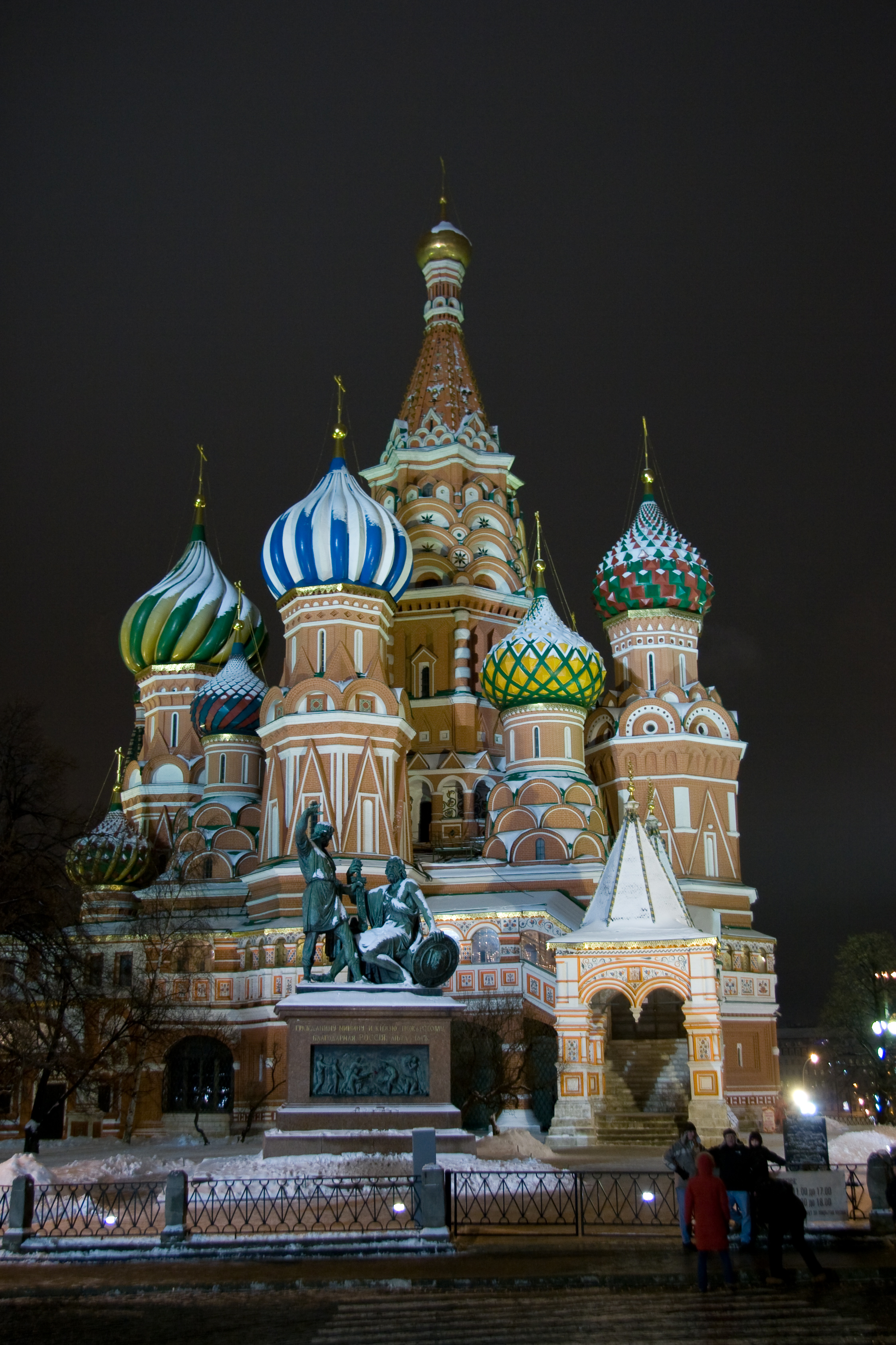 Saint Basil's Cathedral Moscow at winter night from the Red Square